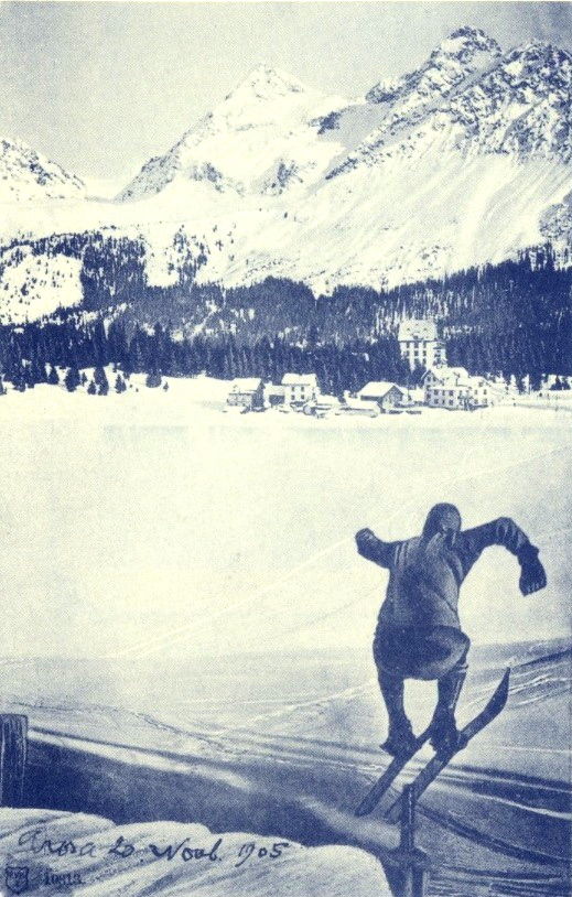 First skijumping event in Arosa, February 1904